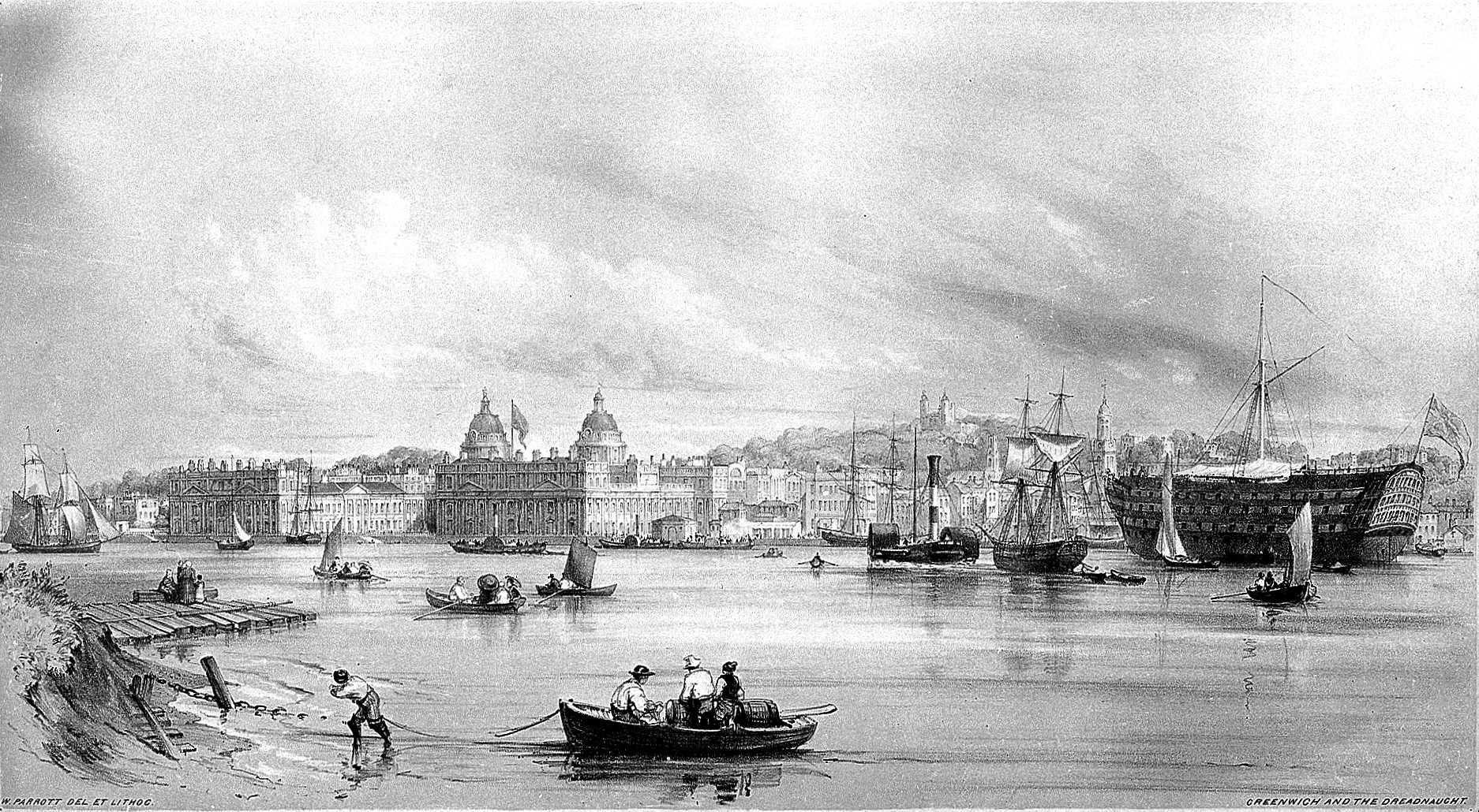 Hospital-ship 'The Dreadnought'. Wellcome Images Keywords: Naval and Military; W. Parrott